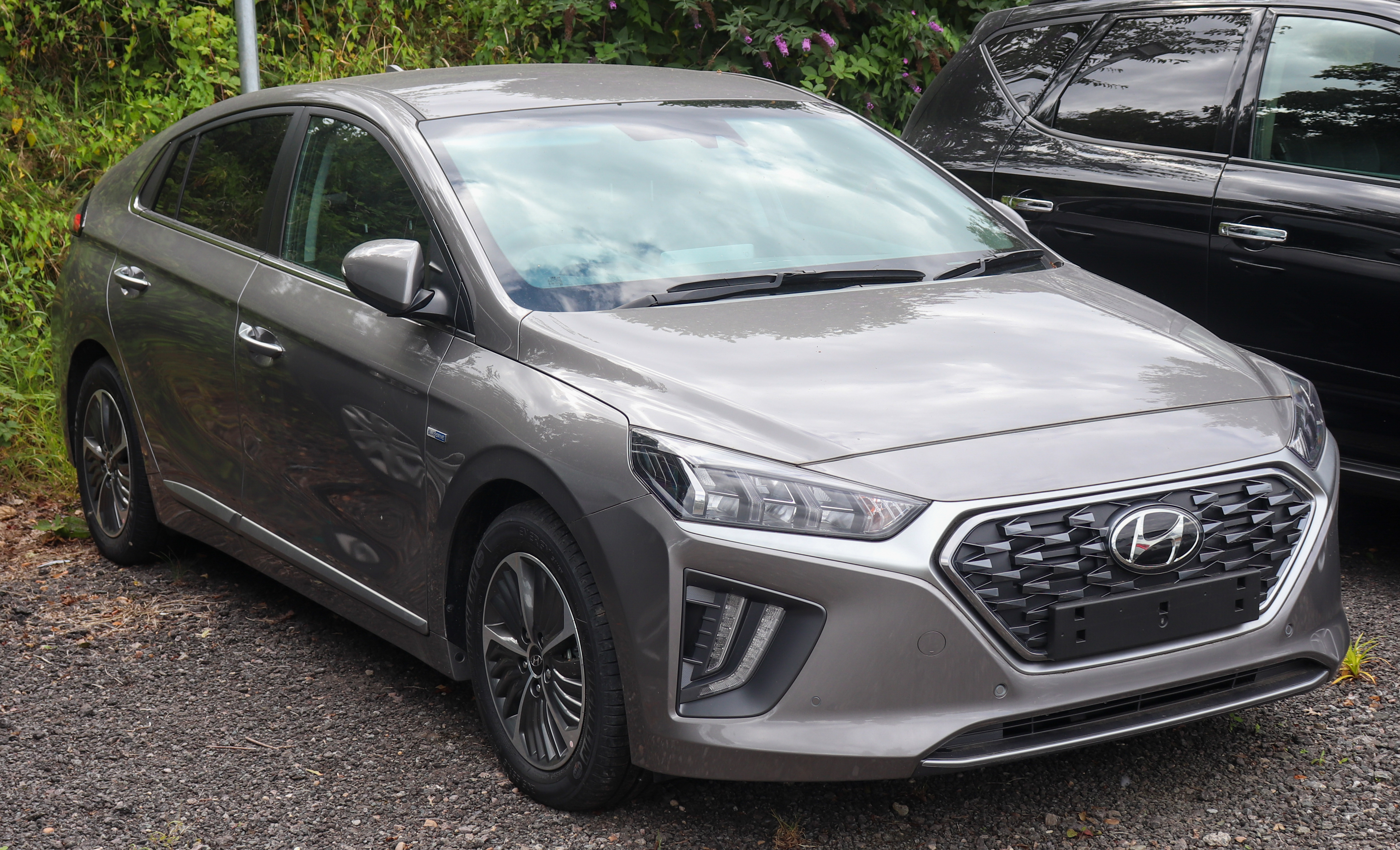 2020 Hyundai Ioniq Plug-in Hybrid Premium SE facelift 1.6 Taken in Warwick